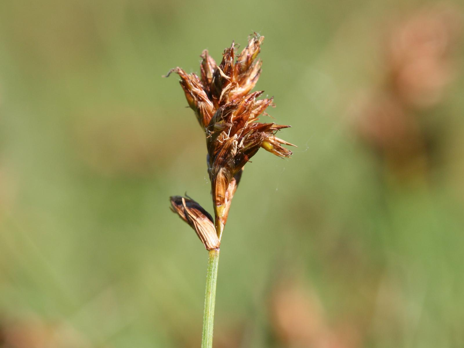 Platthalm-Quellried (Blysmus compressus)